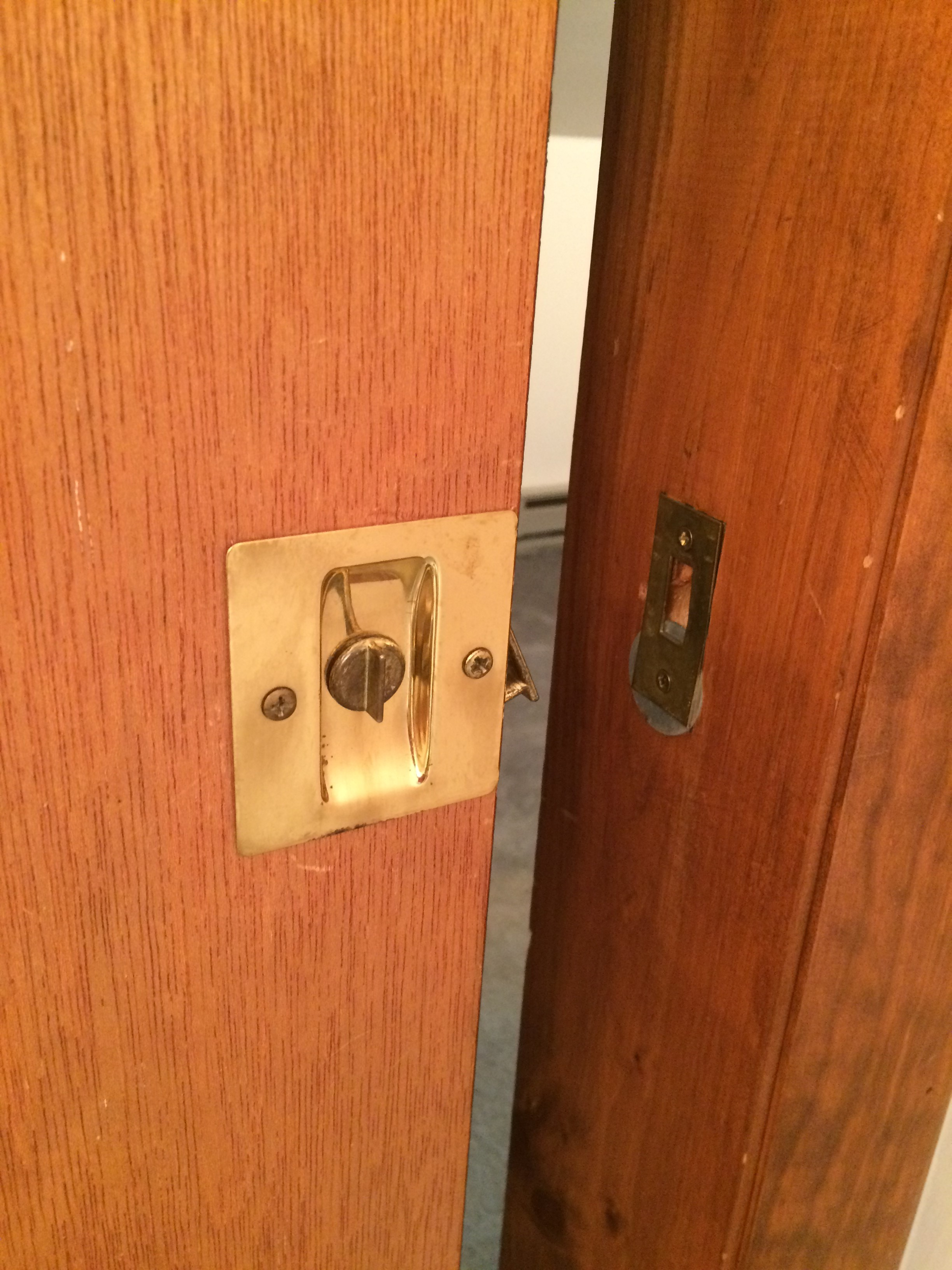 rotated image